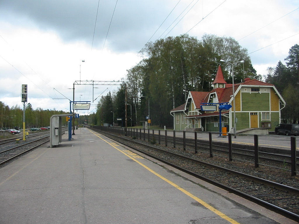 Kauniainen railway station, Kauniainen, Finland